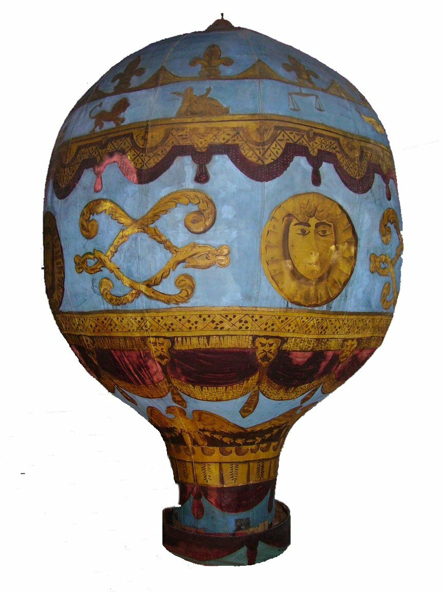 Model of the Montgolfier brothers balloon in the London Science Museum, England. (NB this picture is not the same as this one [1] the angle is slightly different). Category:Collections of the Science Museum (London)